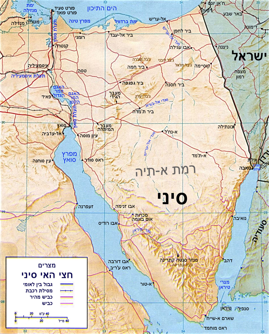 Shaded relief map of the Sinai Peninsula, 1992, produced by the U.S. Central Intelligence Agency.